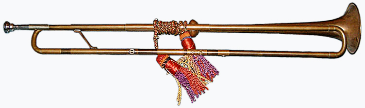 Baroque repro trumpet by Michael Laird, my photo, large